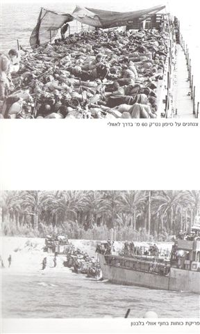 Landing craft 60 m long carrying and landing military armored vehicles